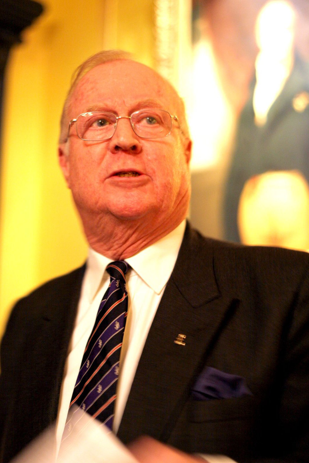 Sir Nicholas Winterton, pictured speaking at a dinner. (1061x1592 px, 216,665 bytes)